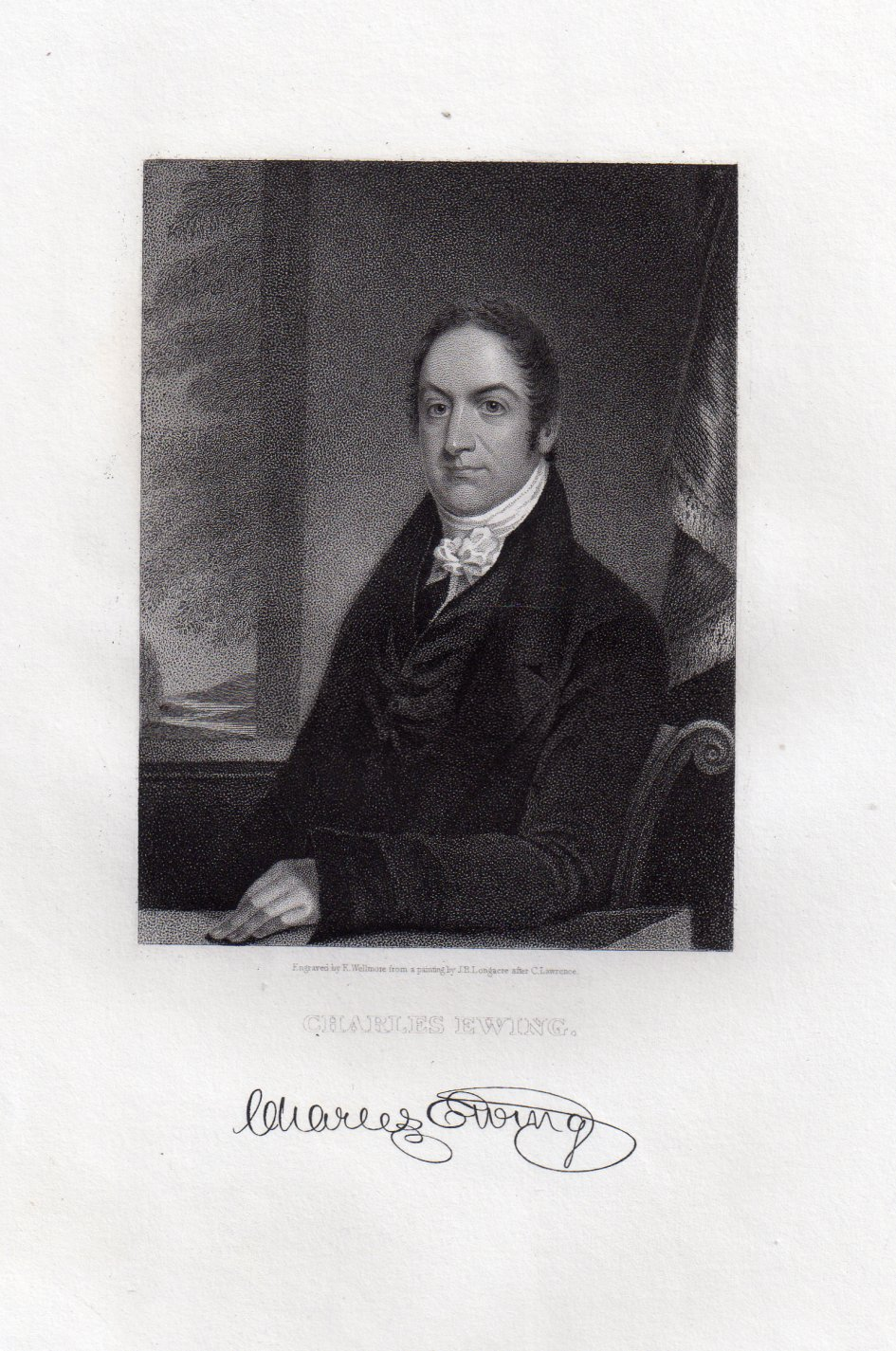 Antique steel plate engraving on paper Total size including margins 10 x 7 inches Engraver: E.Wellmore Drawn by J.B.Longacre Published in 1834 by Monson Bancroft, Philadelphia Condition: Good, full margins